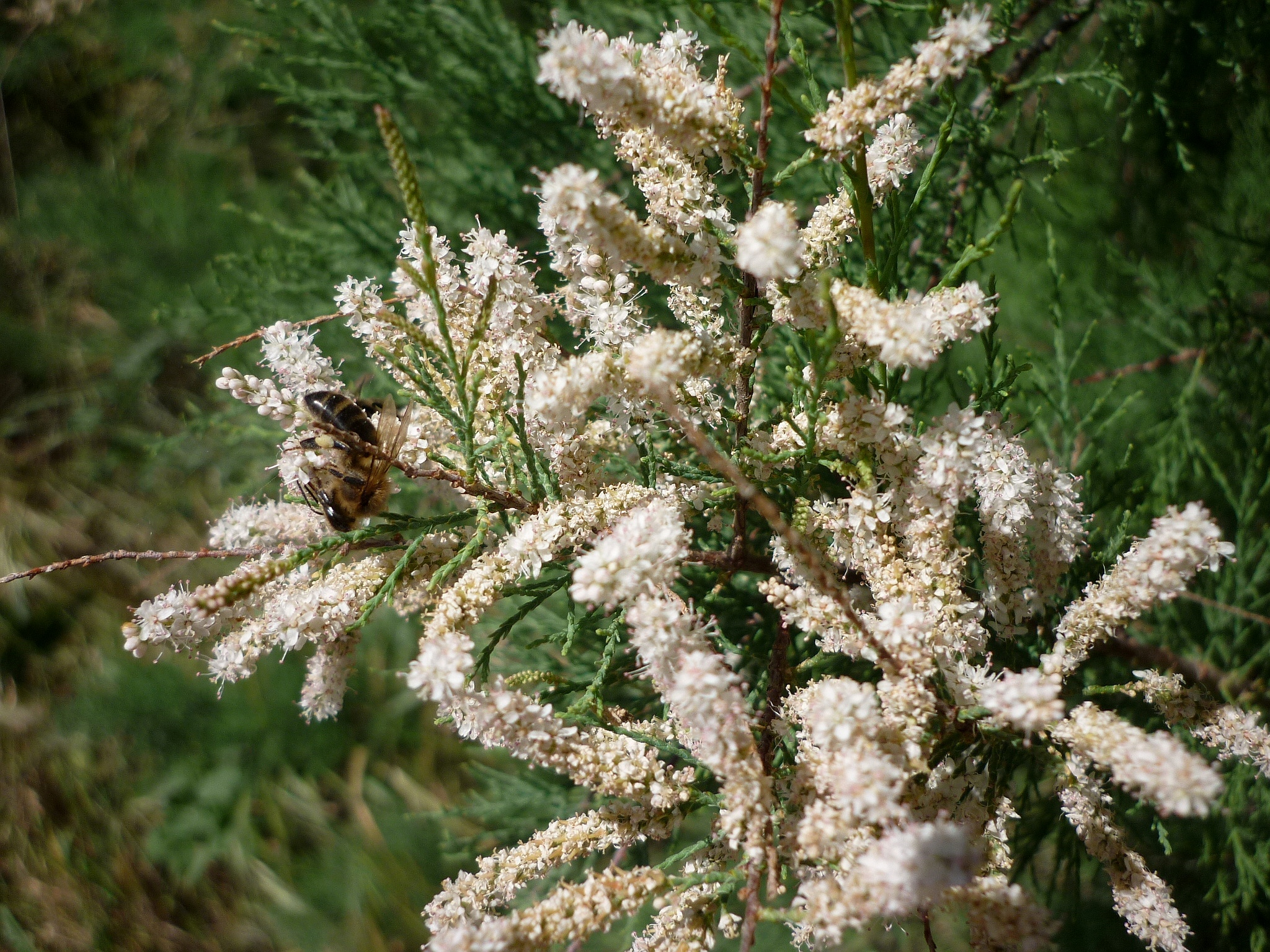 Tamarix canariensis. In Torà (Segarra-Catalunya). To 440 m. altitude